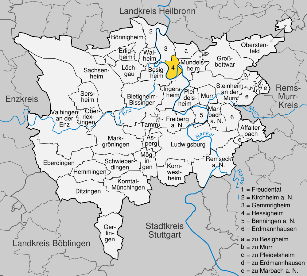 position of Hessigheim within distict of Ludwigsburg, Baden-Württemberg, Germany